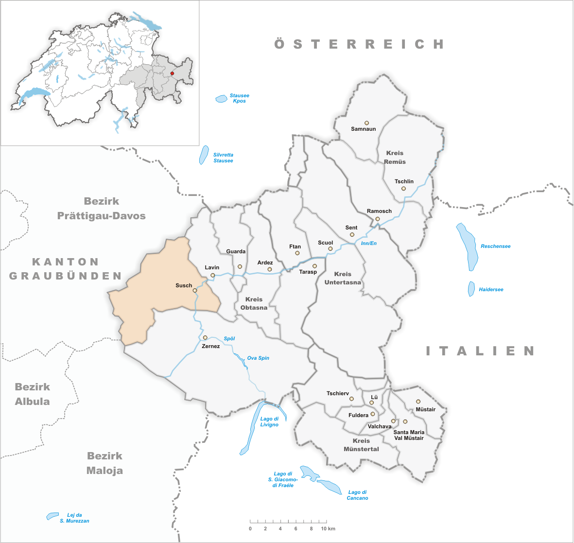 Municipality Susch